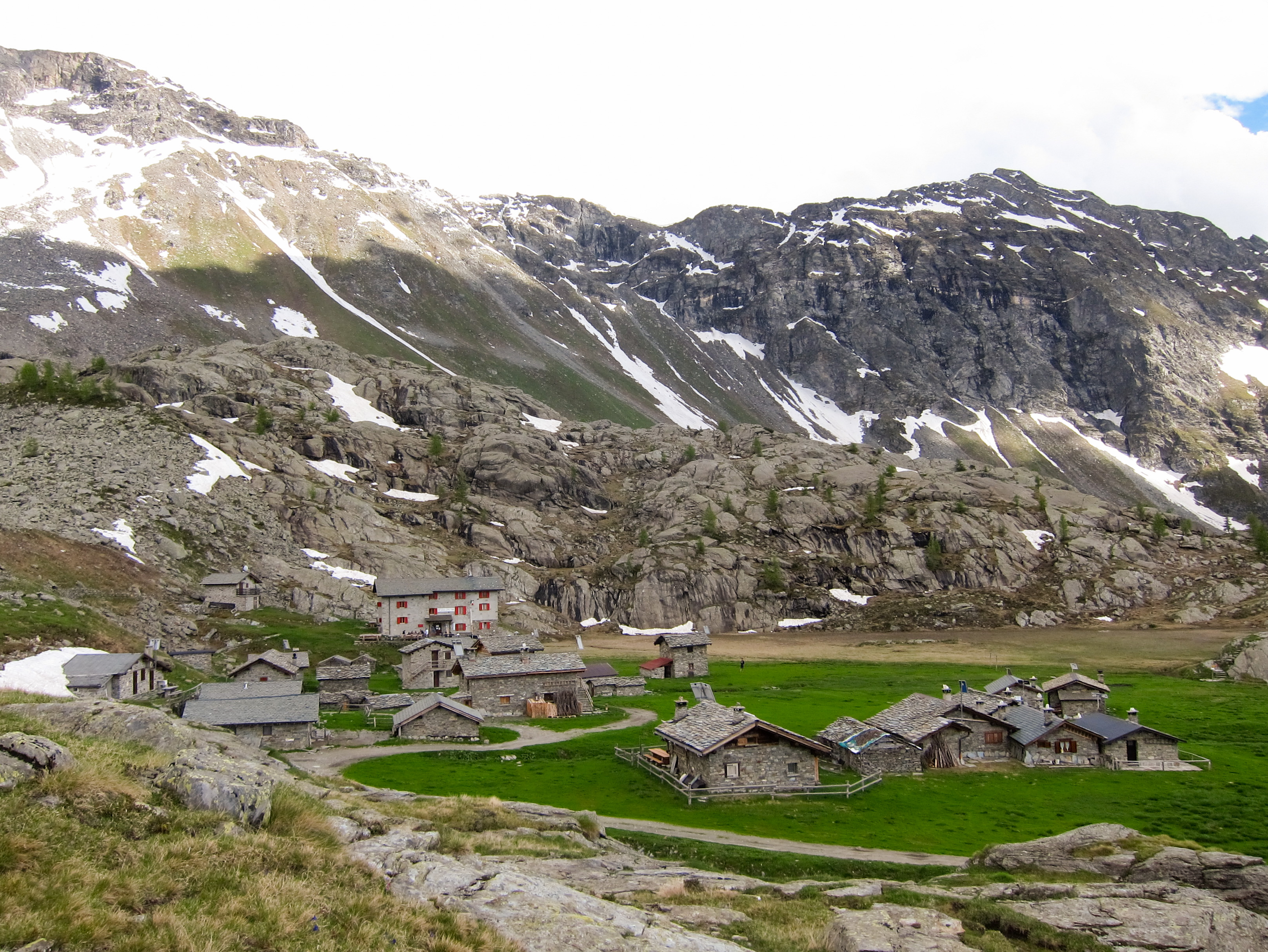 Alpe Prabello settlement at 2.287 Pizzo Scalino mountain (3.323 m s.l.m.) in Valmalenco, Sondrio, Lombardia, Italy. Foto scattata il 2018-06-09.